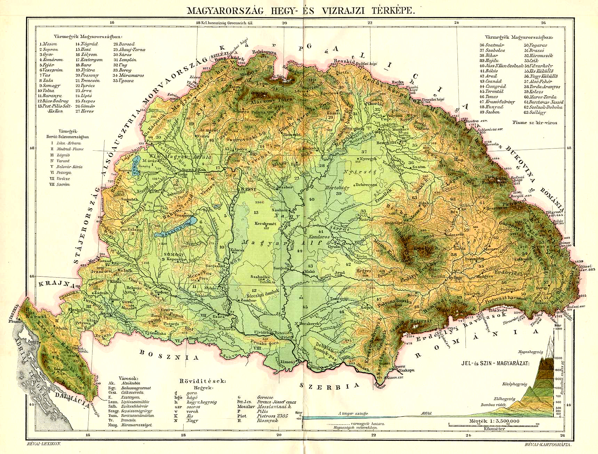 Hydro- geological Map of Hungary